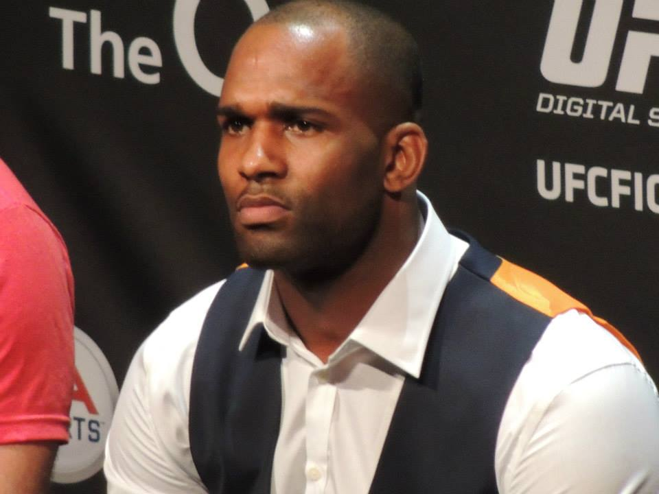 Jimi Manuwa at UFC Fight Night Dublin